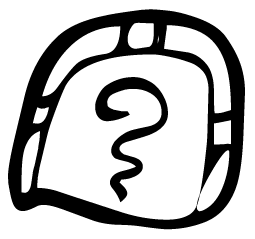 Maya:glyph:logogram:calendric:Tzolkin:Day16:Kib:codex+W:v01. Img created by CJLL Wright.